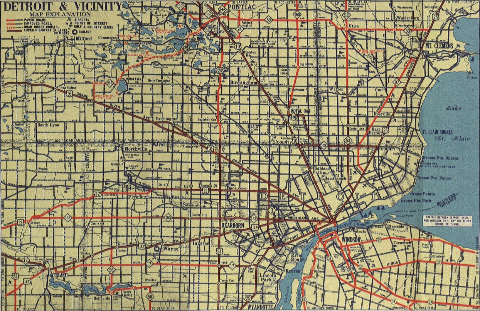 The Detroit inset from the April 15, 1939, edition of the Official Highway Map